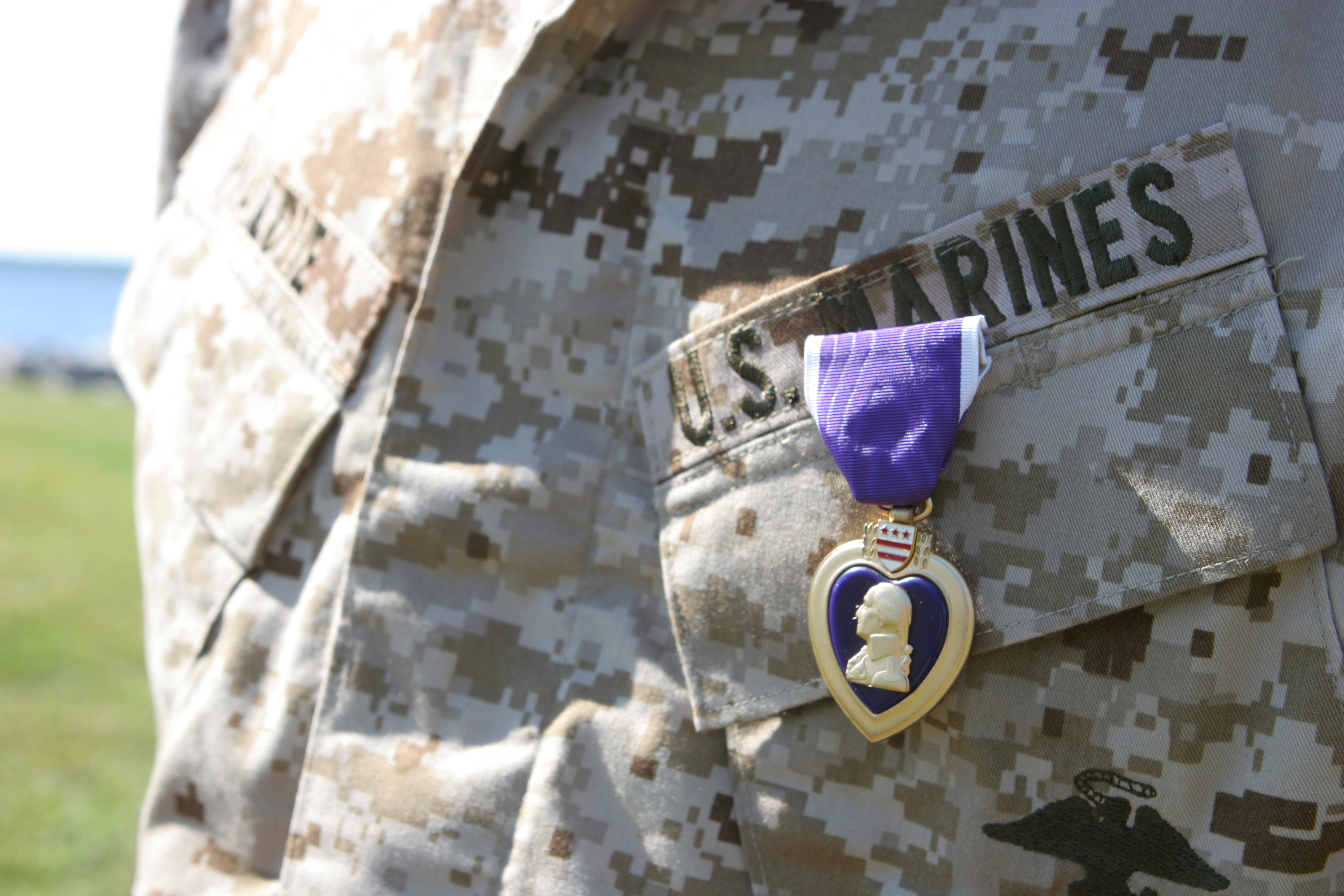 Lance Cpl. Roddra Malone, a motor transportation operator with Combat Logistics Battalion 6, 1st Marine Logistics Group (Forward), wears the Purple Heart medal proudly after receiving it from Brig. Gen. Michael Dana, the commanding general, 2nd Marine Logistics Group, during a ceremony aboard Camp Lejeune, N.C., Oct. 18, 2010. Malone stood proudly to receive his medal three months after the doctors told him he may never walk again.